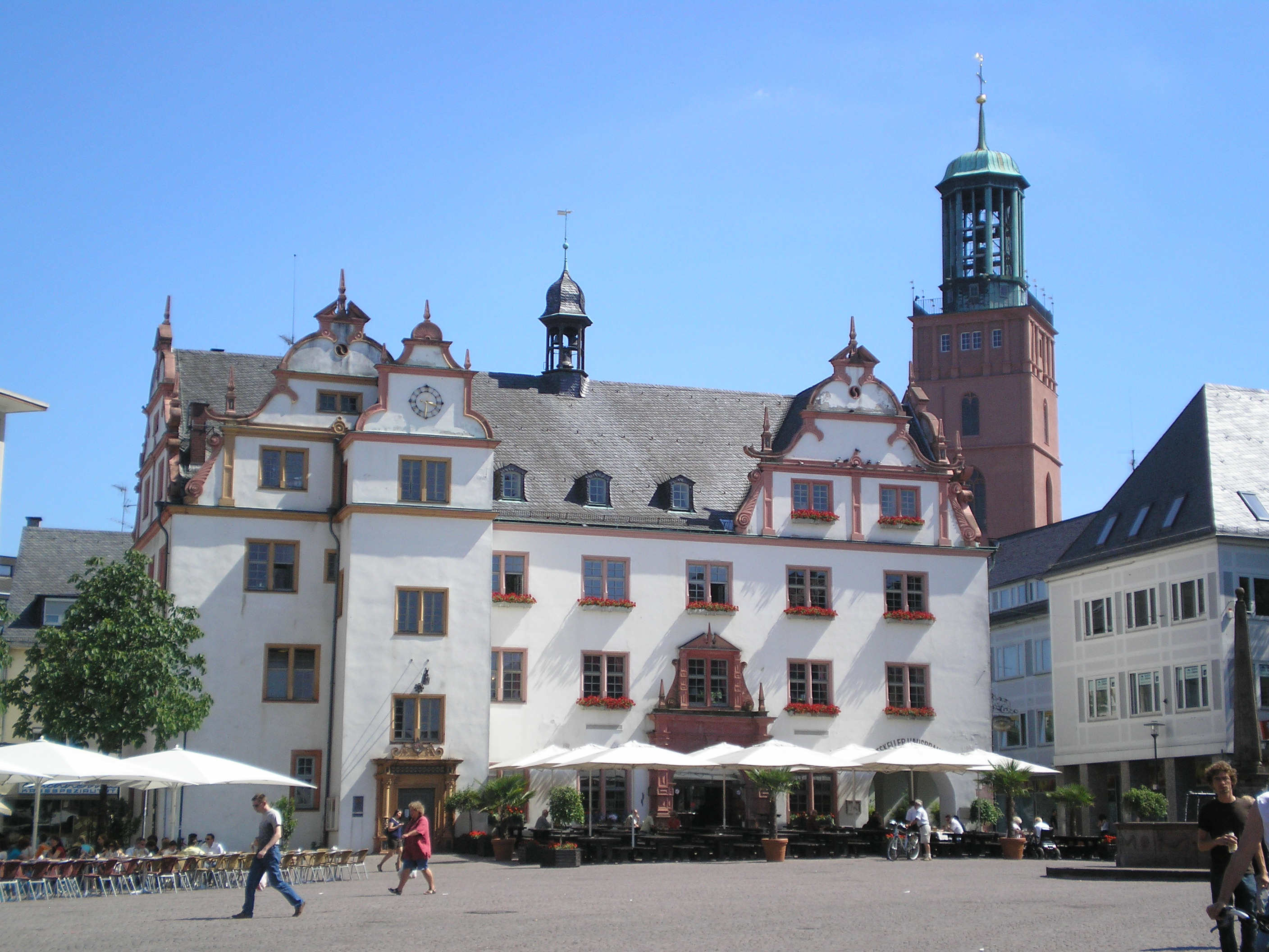 The old City Hall and Market Square in Darmstadt.